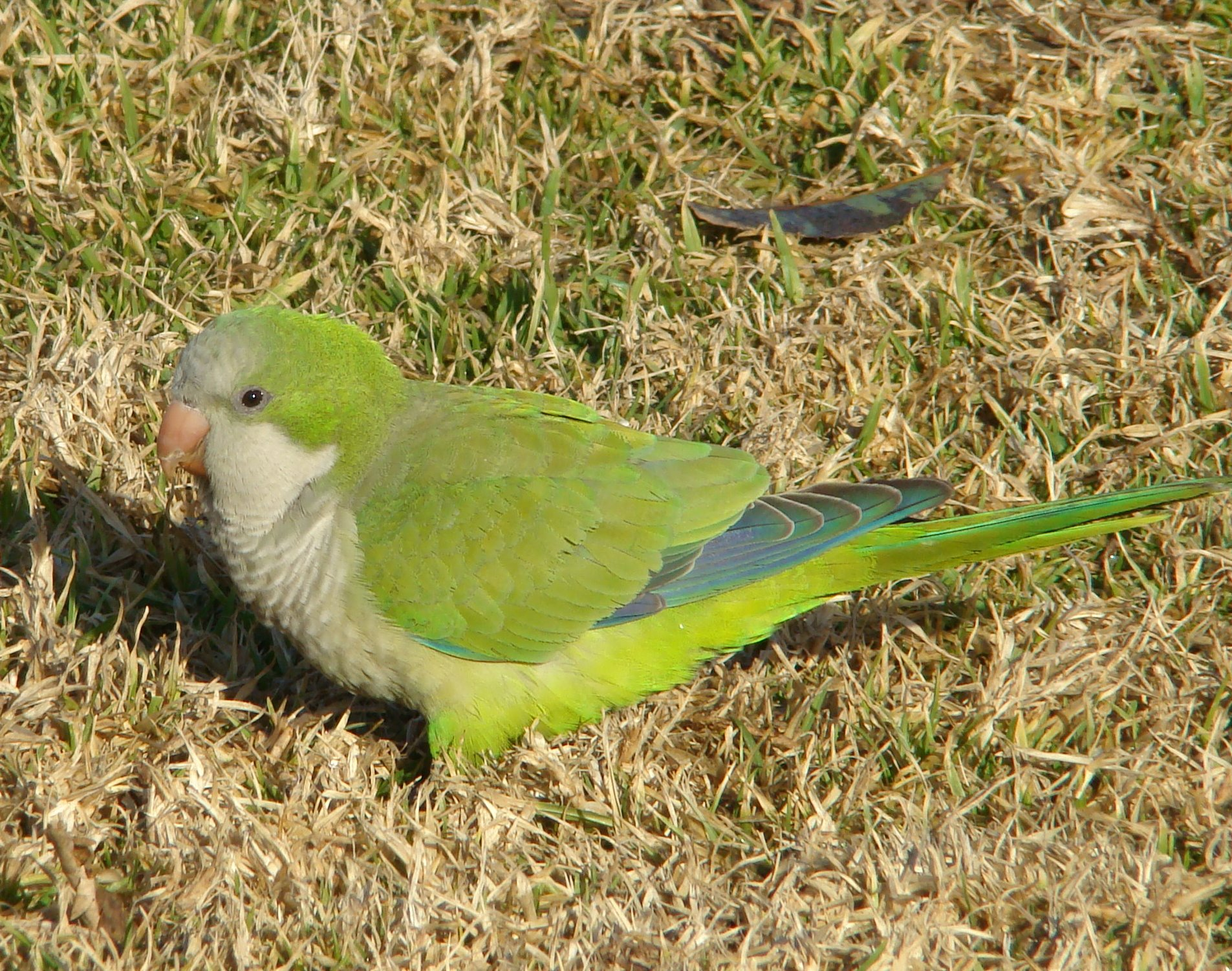 Monk Parakeet or Quaker Parrot (Myiopsitta monachus)) on short grass.